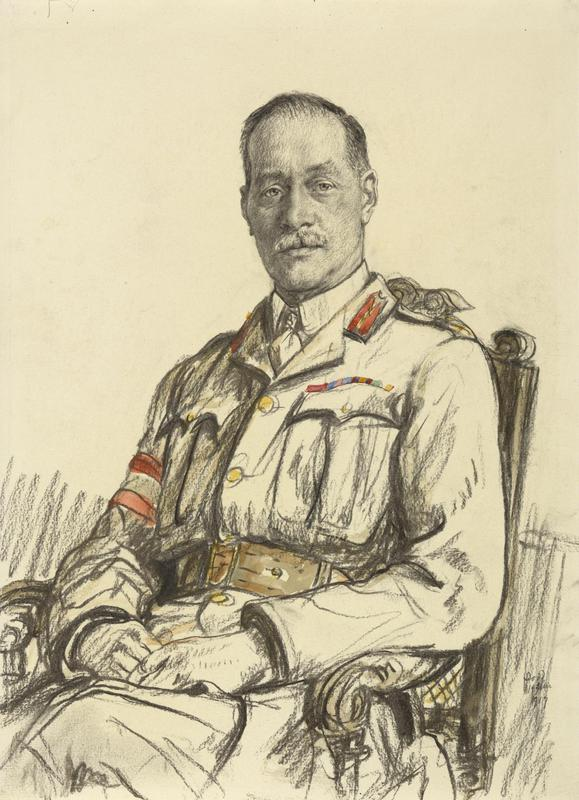 Major-general Herbert Edward Watts, Cb, Cmg image: a half length portrait of General Herbert Watts in uniform, sitting on a high-backed chair, his elbows resting on the arms and holding his hands in his lap.